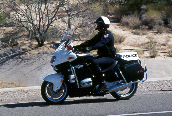 A motor officer patrolling in Arizona on a BMW "motor" Photo © by Jeff Dean